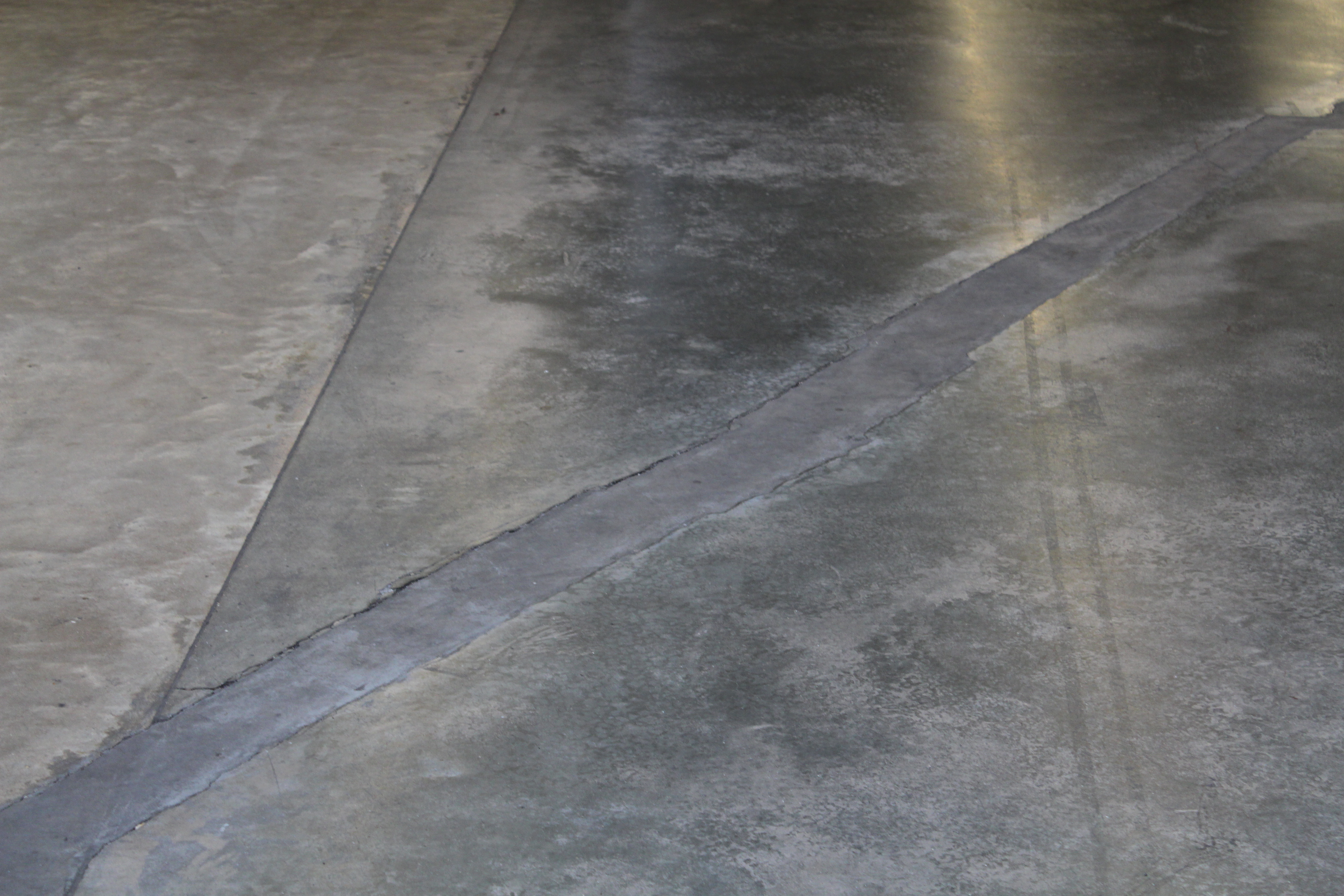 Shibboleth remains, Tate Modern Museum, London